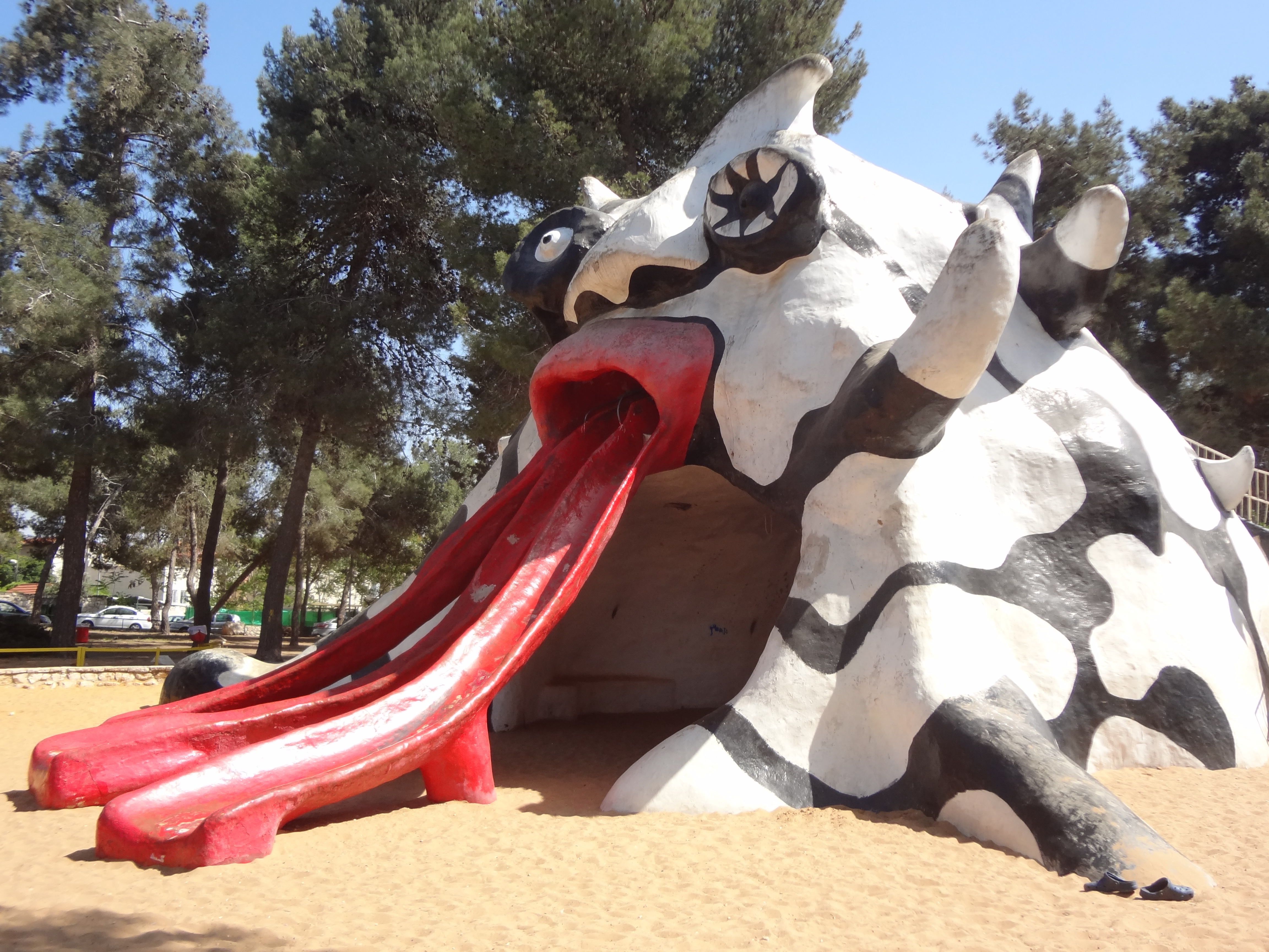 Ha mifletzet (the monster) - a large sculpture/slide in the Kiryat Hayovel neighborhood of Jerusalem